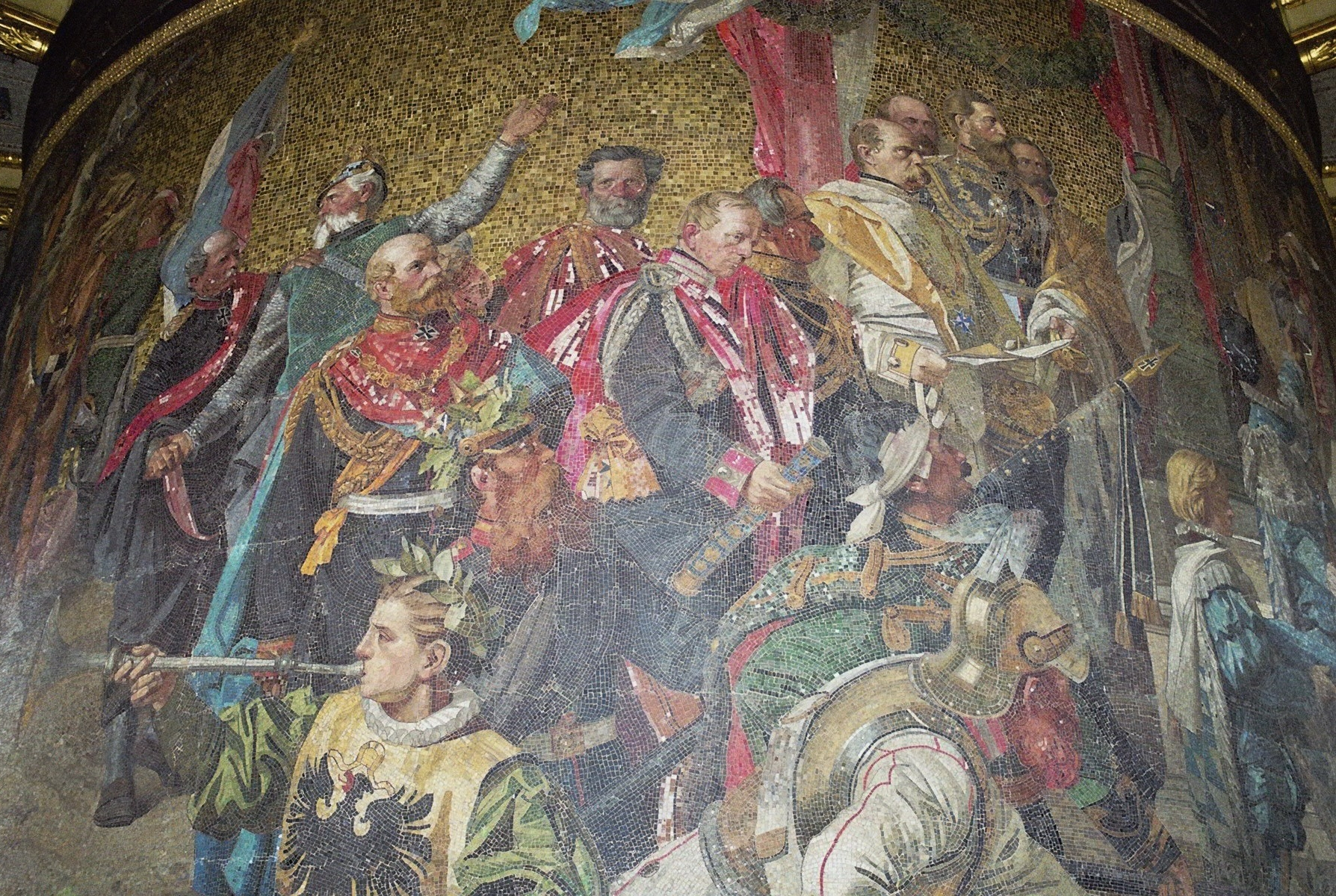 Victory Column (german:Siegessaeule) in Berlin, Germany (part of mosaic from pedestal)